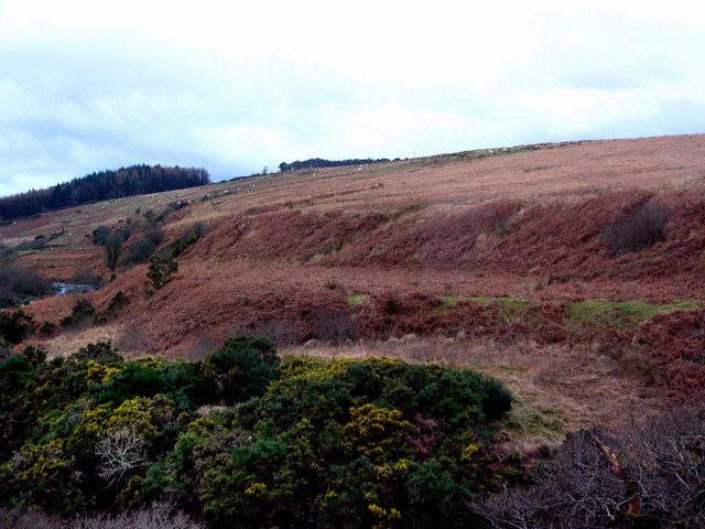 Fluvioglacial terrace at Loup of Kilfeddar Formed where meltwater from glaciers cut through the underlying boulder clays.